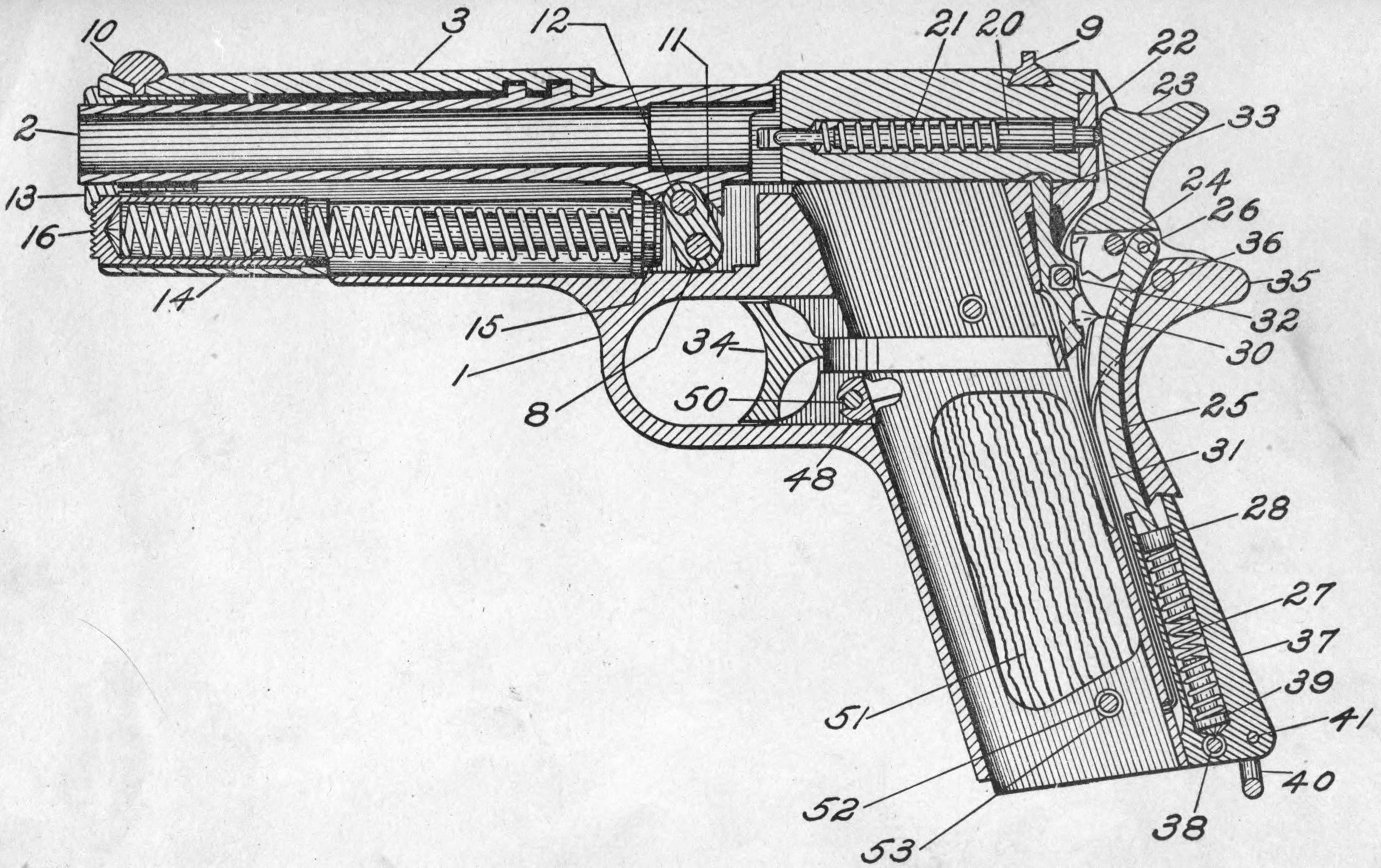 Cross-section diagram of U.S. Army Colt Model 1911 semi-automatic pistol ("Automatic Pistol, Caliber .45, Model of 1911") as shown in official Army description for the pistol. The numbered parts are as follows (omitted numbers are for parts not labeled in the diagram): 1. Receiver2. Barrel3. Slide8. Slide stop9. Rear sight10. Front sight11. Link12. Link pin13. Barrel bushing14. Recoil spring15. Recoil-spring guide16. Plug20. Firing pin21. Firing-pin spring22. Firing-pin stop23. Hammer24. Hammer pin25. Hammer strut26. Hammer-strut pin27. Mainspring28. Mainspring cap30. Sear31. Sear spring32. Sear pin33. Disconnector34. Trigger35. Grip safety36. Safety lock37. Mainspring housing38. Housing pin39. Housing-pin retainer40. Lanyard loop41. Lanyard-loop pin48. Magazine catch50. Magazine-catch lock51. Stocks, right and left52. Stock screws (4)53. Screw bushings (4)